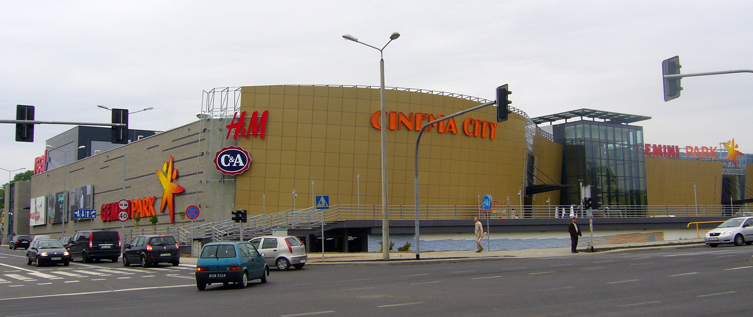 Gemini Park - shopping mall in Bielsko-Biała, Poland